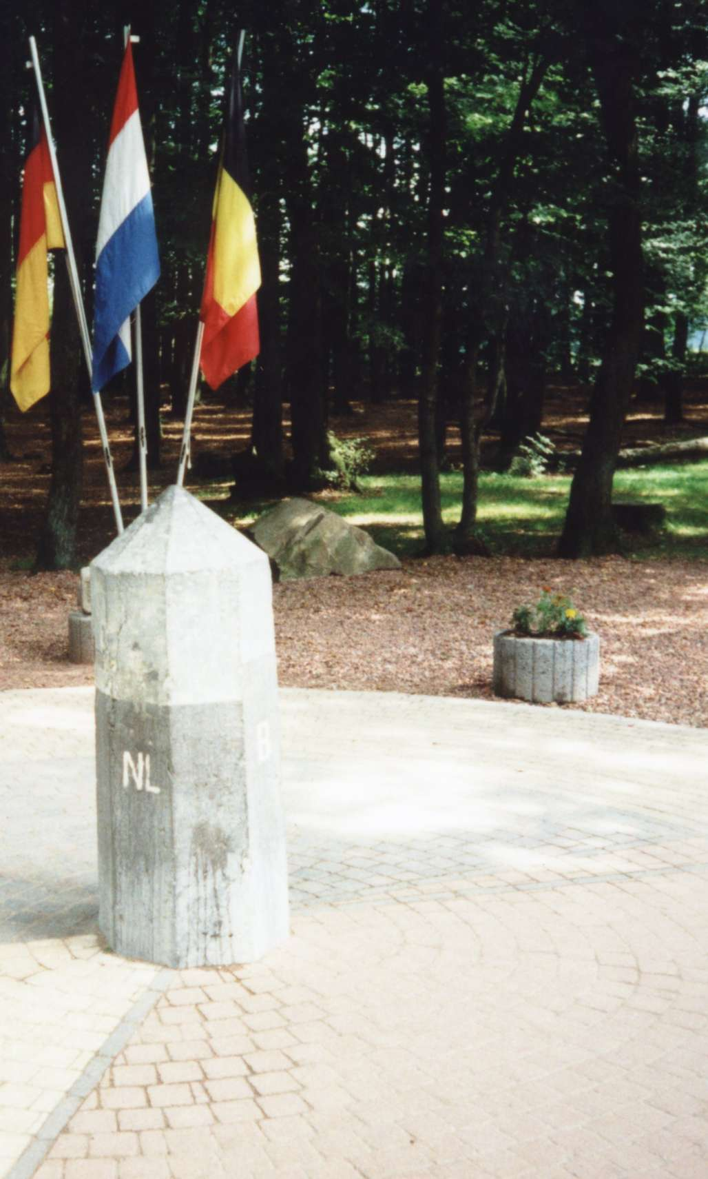 The Drielandenpunt (Three country point, Dreiländereck), the point where the boundaries of Germany, the Netherlands and Belgium converge, near the city of Aachen (Germany) and Vaals (Netherlands). Photo taken in 2000 (?) by User:Ahoerstemeier